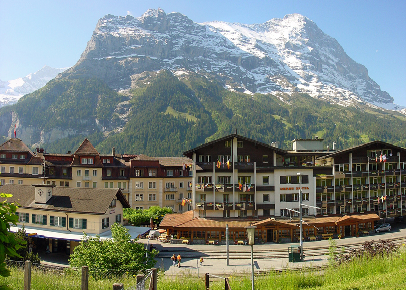 Grindelwald, railwaystation